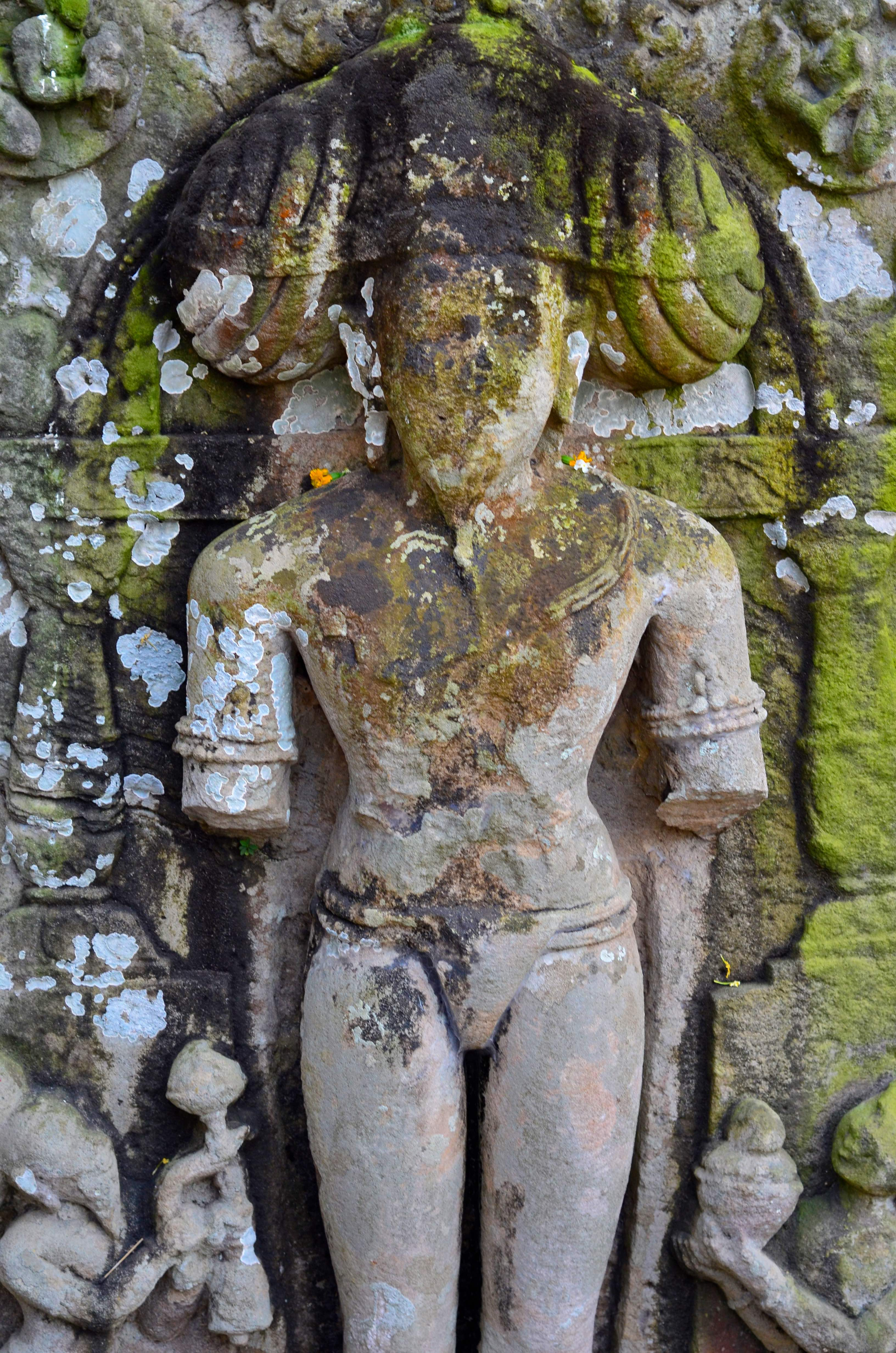 The 12th century saint-poet Jayadeba flourished in the region surrounding the Jagannatha Temple of Puri. At the ancient Akhandaleswara Temple of Prataparudrapura in Odisha, there is an image of the saint-poet.